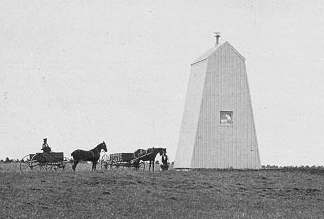 Nantucket Rear Range Light (original range), Nantucket, MA USA